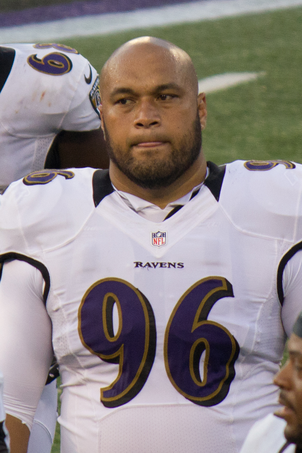 Kemoeatu at Ravens M&T Bank Stadium practice in August 2012